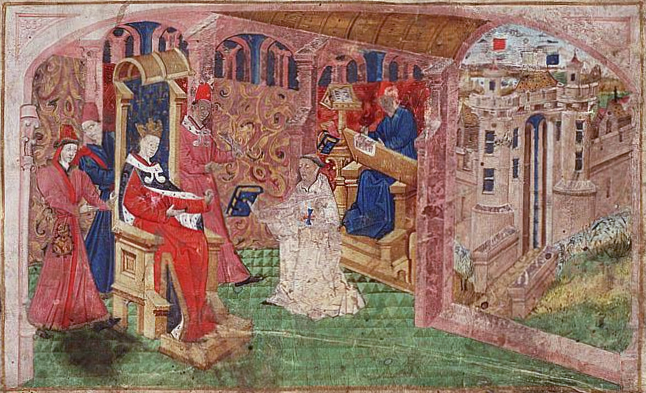 Simon de Hesdin presents his translation of Valerius Maximus' 'Facta et dicta memorabilia' to Charles V, king of France Contents: Valerius Maximus, Des faits et dits mémorables (Books I-VII). Translation from the Latin by Simon de Hesdin Place of origin, date: France; 1462 Material: Vellum, ff. 314, 368x274 (287x205) mm, 41 lines, littera cursiva, Binding: 18th-century brown leather; gilt on spine Decoration: 8 two-column miniatures (105x139 mm); 1 column miniature (126x85 mm); decorated initials with border decoration (ff. 1r, 77r, 154r, 188v, 197v, etc.) Provenance: Philippe de Rubempr‚ (d. c. 1710). Georges Joseph G‚rard (1734-1814) of Brussels; purchased in 1818 by the Dutch Government with the Gérard collection and placed in the Algemeen Rijksarchief (now: Nationaal Archief) at The Hague; transferred to the KB in 1832 (G‚rardno. A 21)